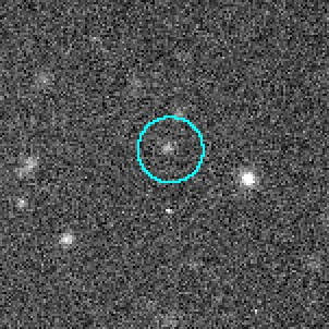 Photograph of Stephano, a moon of Uranus.